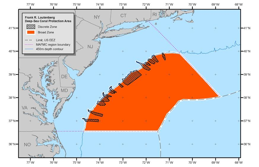 Boundaries of Frank R. Lautenberg Deep-Sea Coral Protection Area